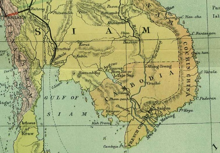 Detail showing Cambodia from map of French Indochina